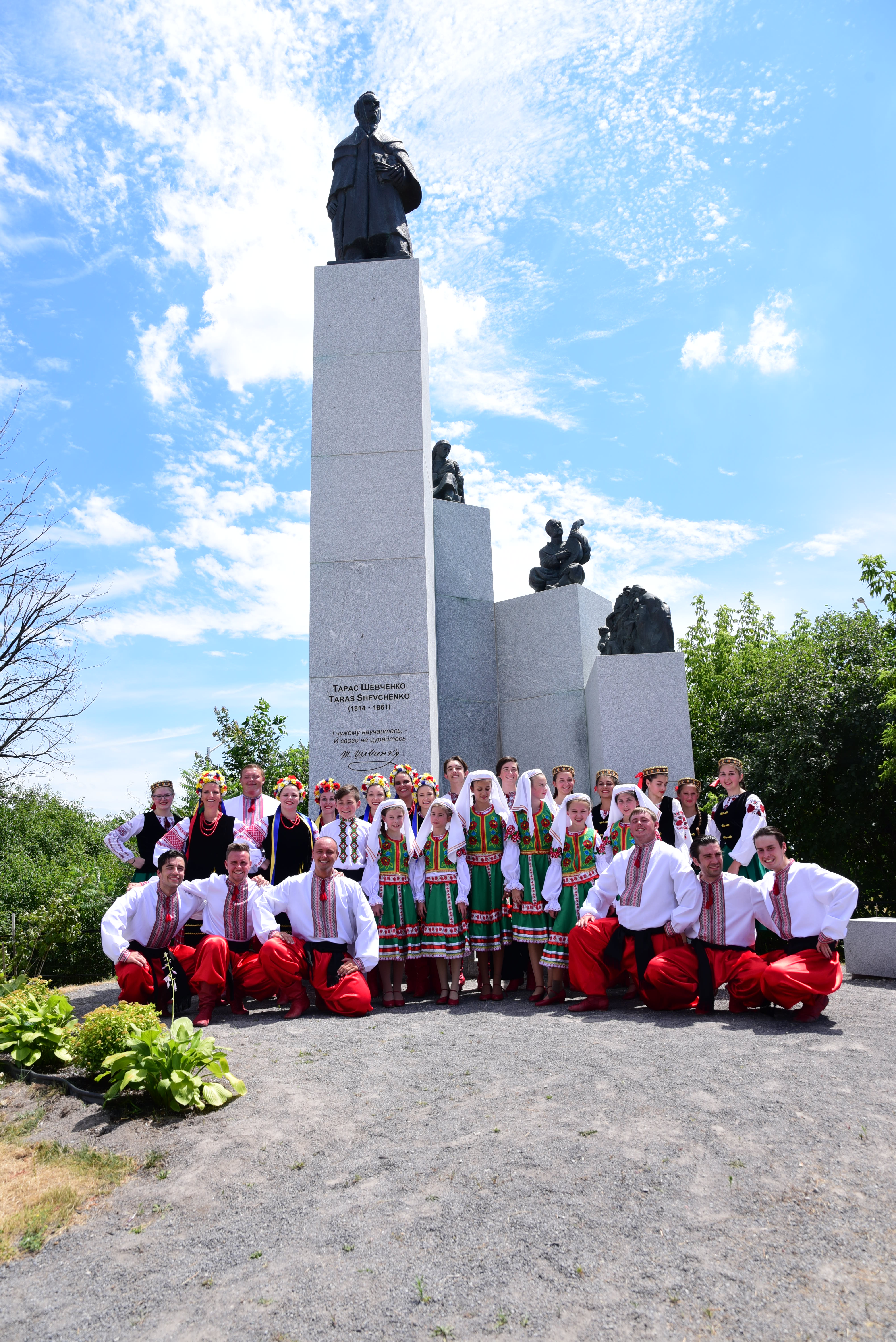 Ukrainian Dancers group picture during the Ottawa Ukrainian Festival2018